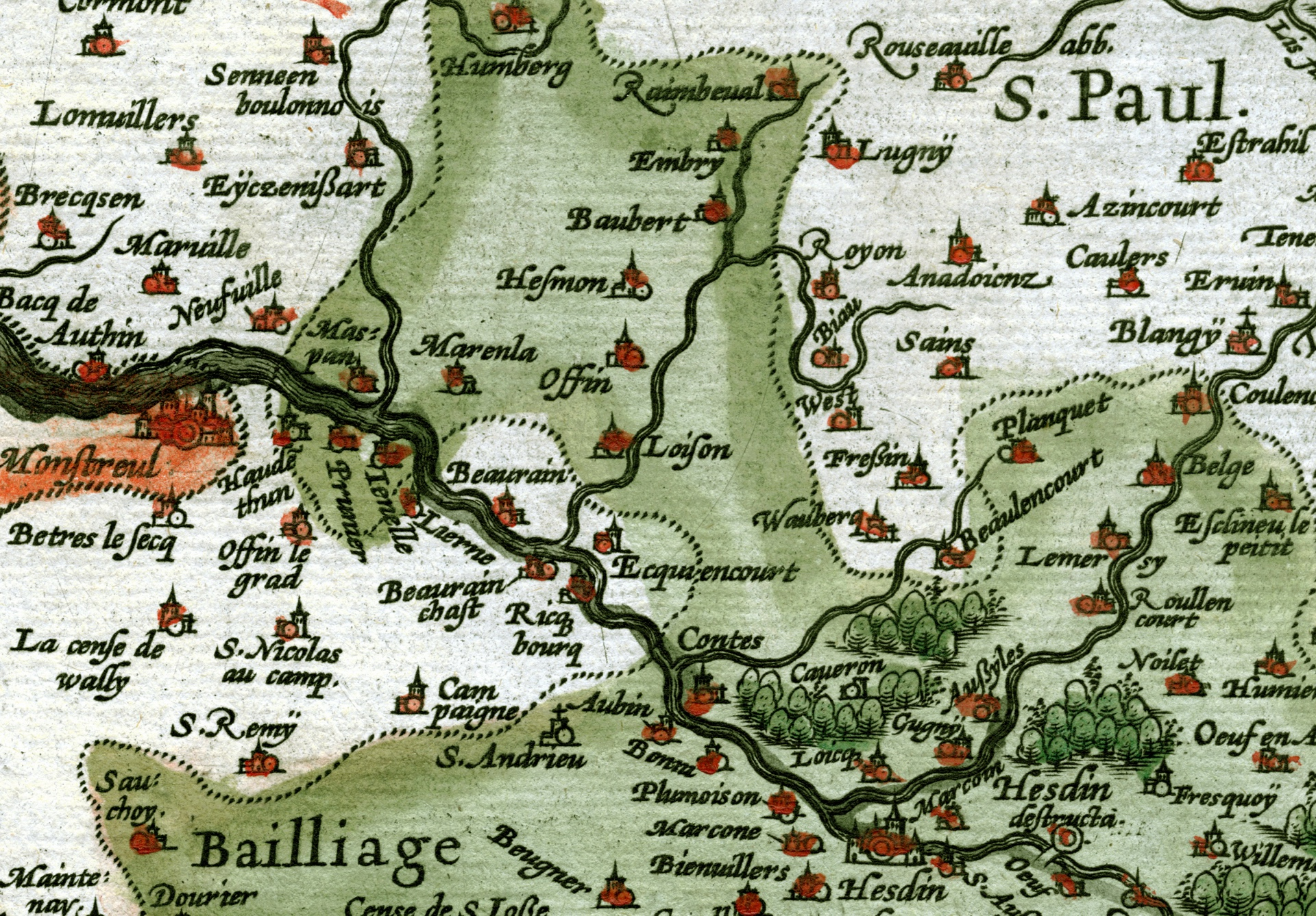 Map of Artois : Royon village by Ortellius 1576 - private collection